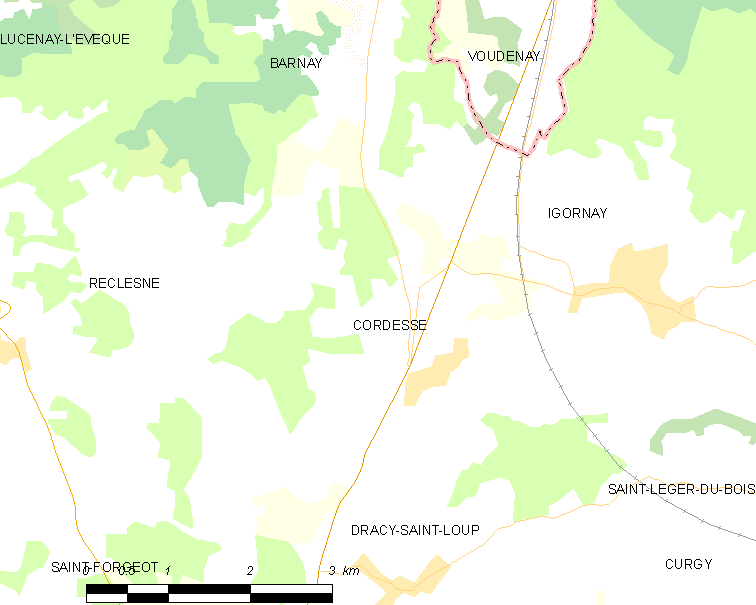 Map of French municipality